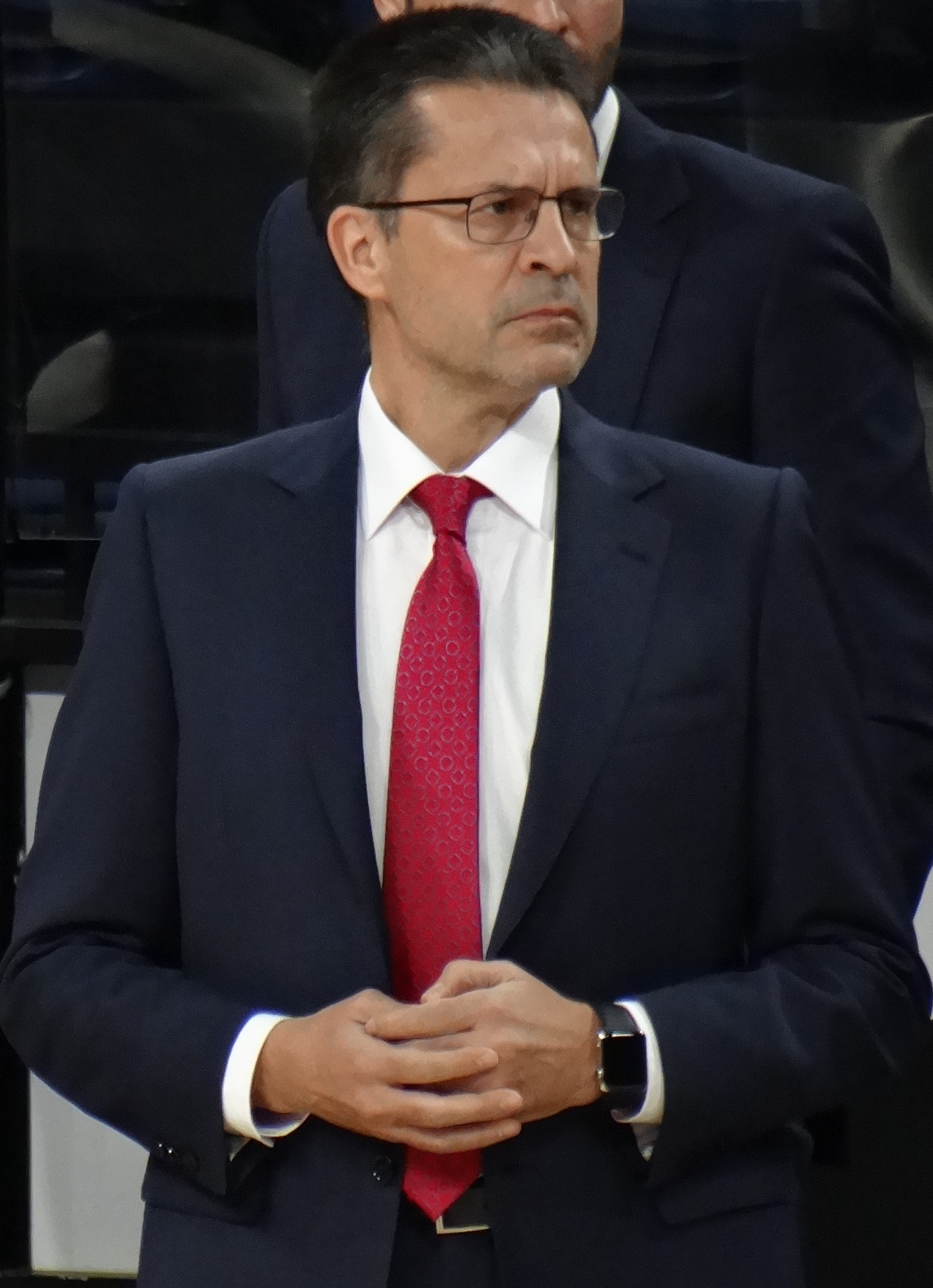 Pedro Martínez - Saski Baskonia 20171215